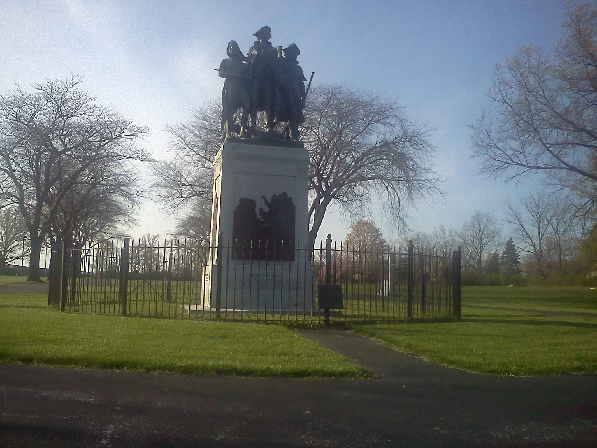 Monument near the actual site of the Fallen Timbers battlefield near Maumee, Ohio.